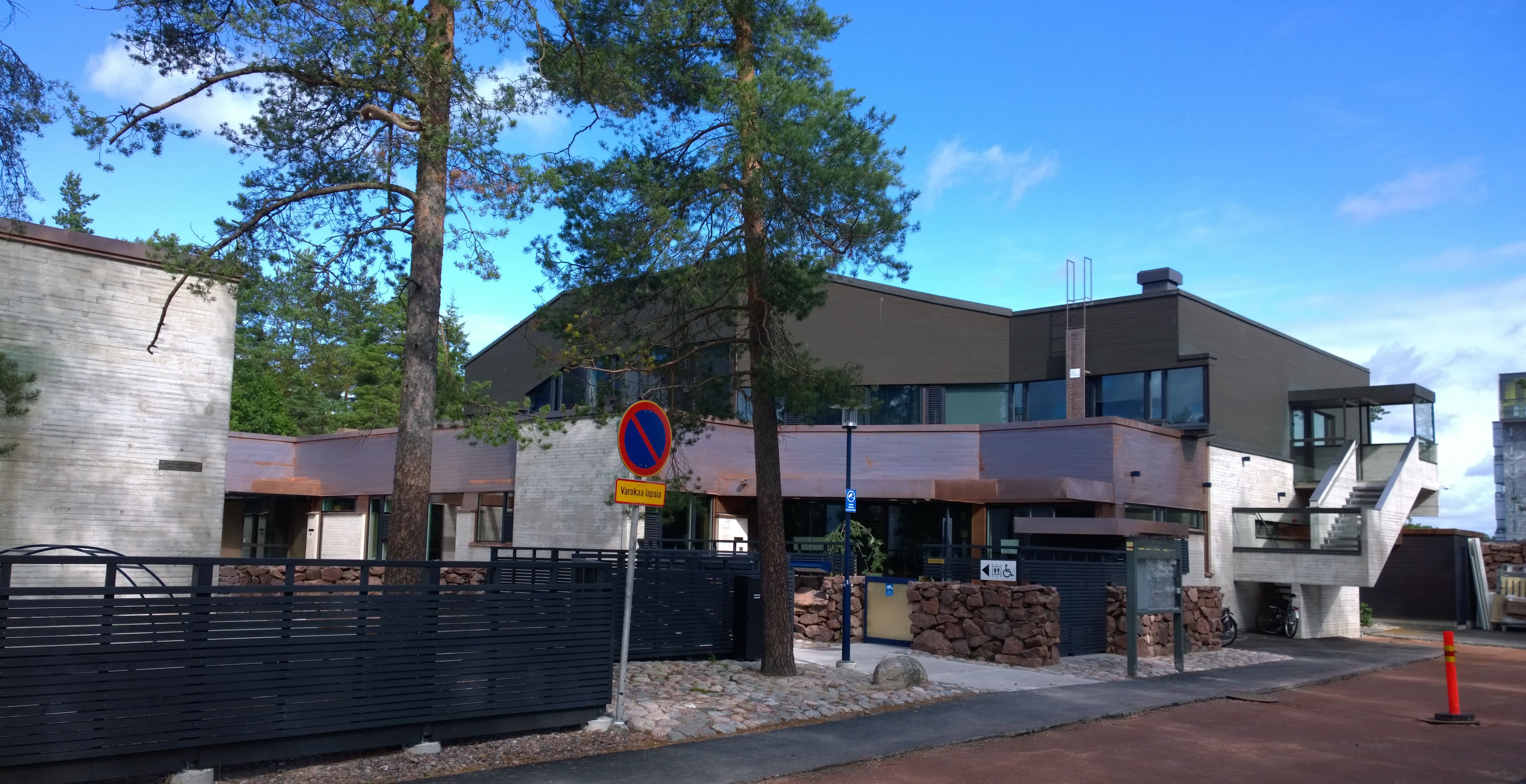 Espoonlahti Church, the wing seen from the South side of the building. On the right a new building on Ulappakatu.